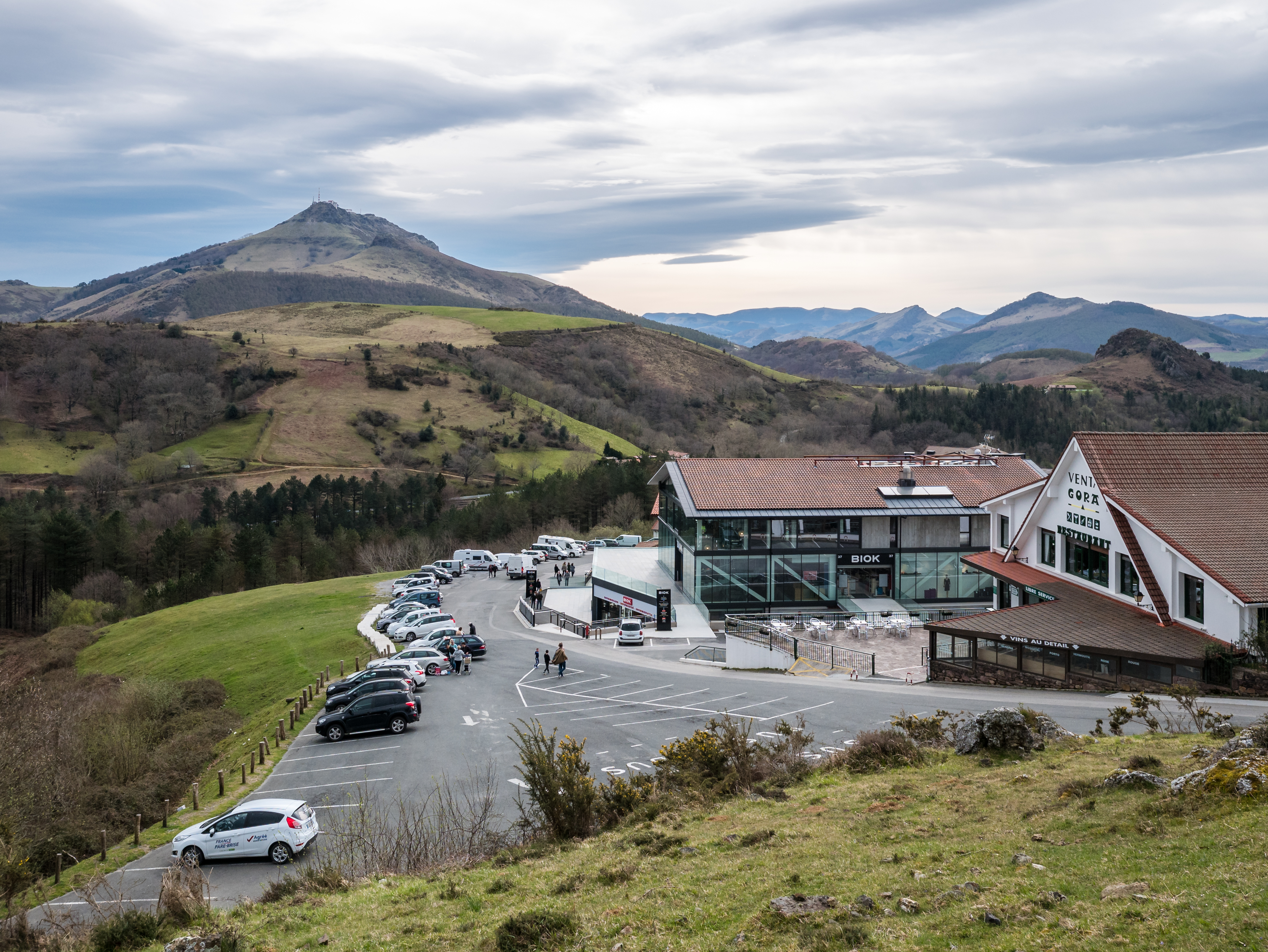 Shops at Col d'Ibardin. Navarre, Spain